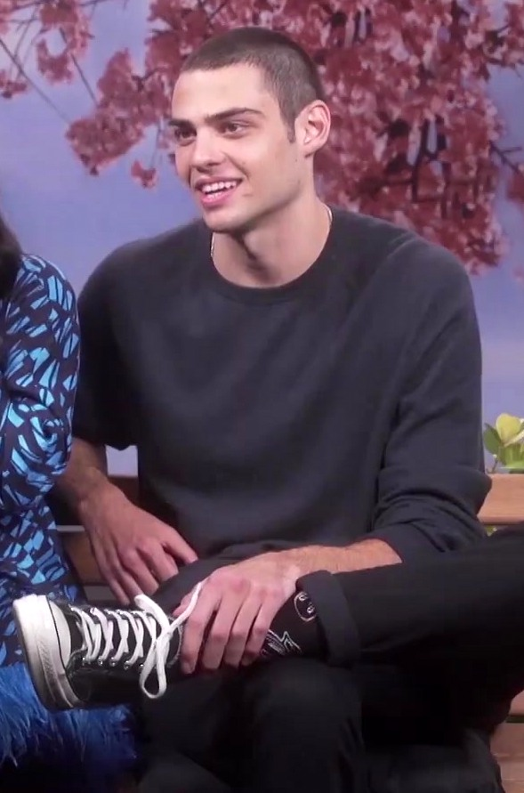 Interview with actors from the movie To All the Boys: P.S. I Still Love You, Lana Condor (Lara Jean) and Noah Centineo (Peter Kavinsky).